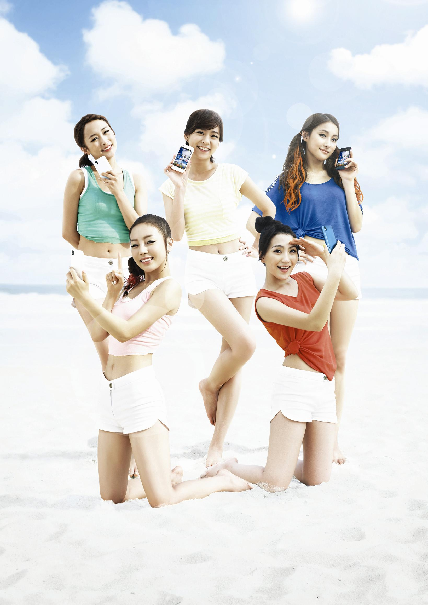 Kara in LG Optimus Bright advertisement